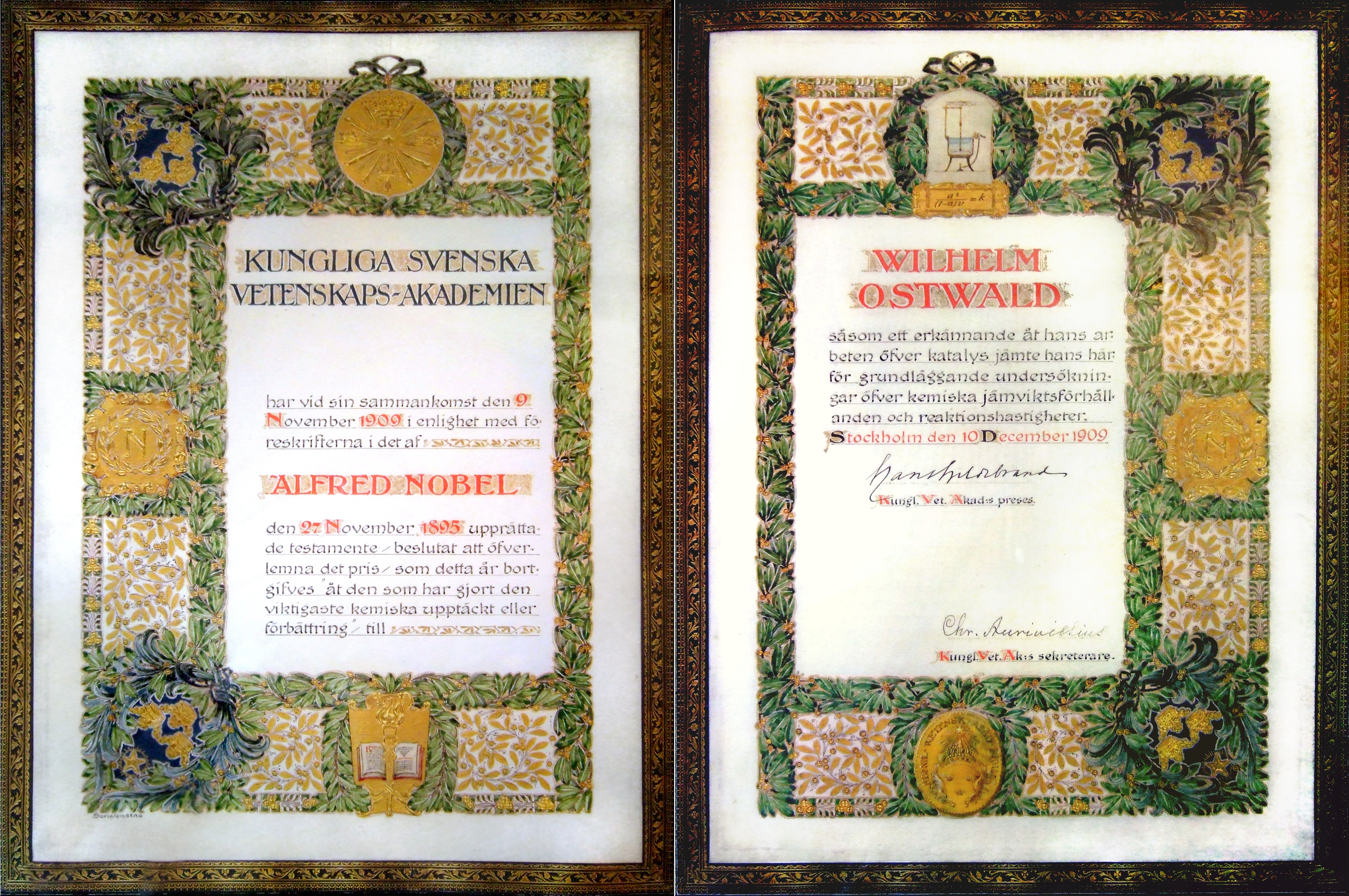 Nobel Prize certificate for Wilhelm Ostwald 1909 - Chemistry. The certificate was produced by artist Sofia Gisberg.